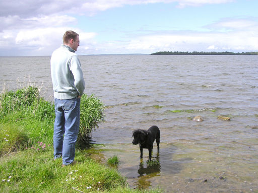 Lough Neagh (borders five counties) The largest inland area of water in the British Isles, in places you would not easily see the opposite bank, famous for Lough Neagh pollen (fish)